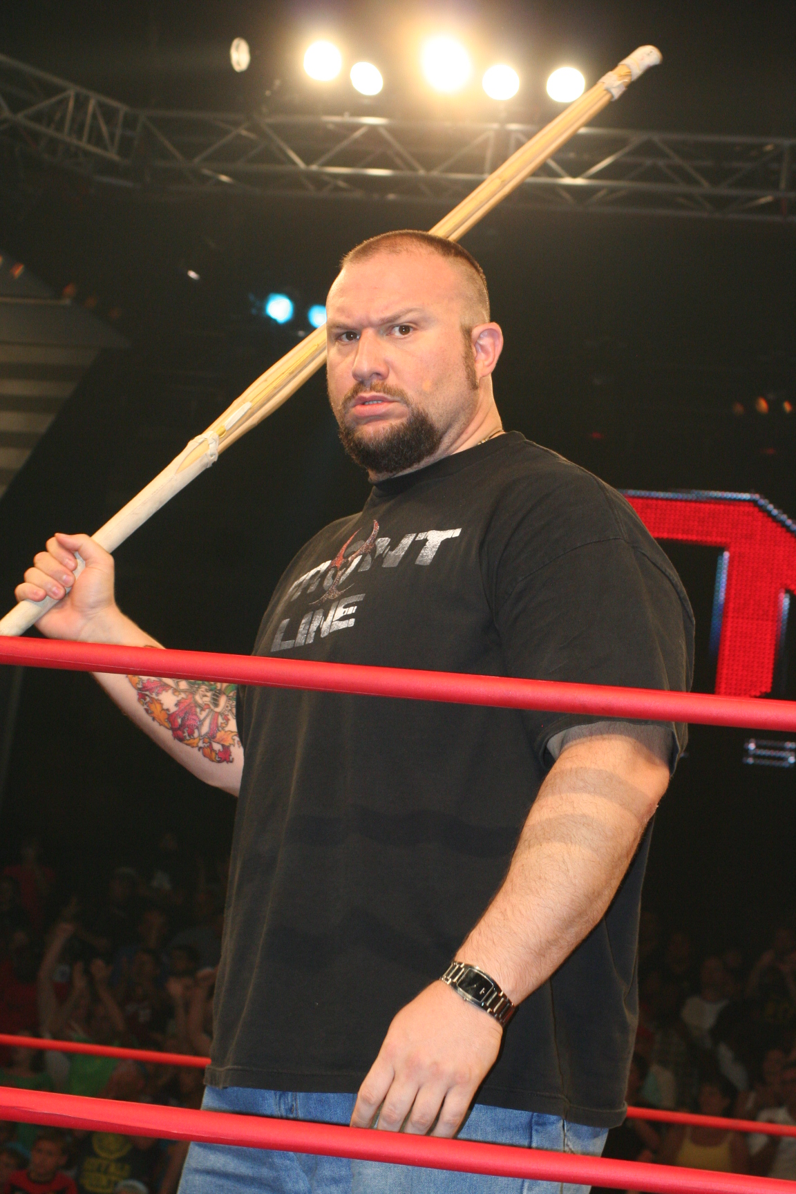 Brother/Bully Ray brandishes a Singapore cane. Taken July 26, 2010.